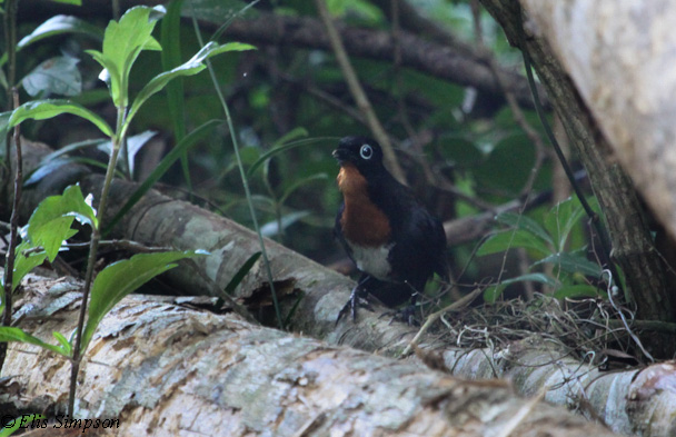 Kuranda, Queensland, Australia.